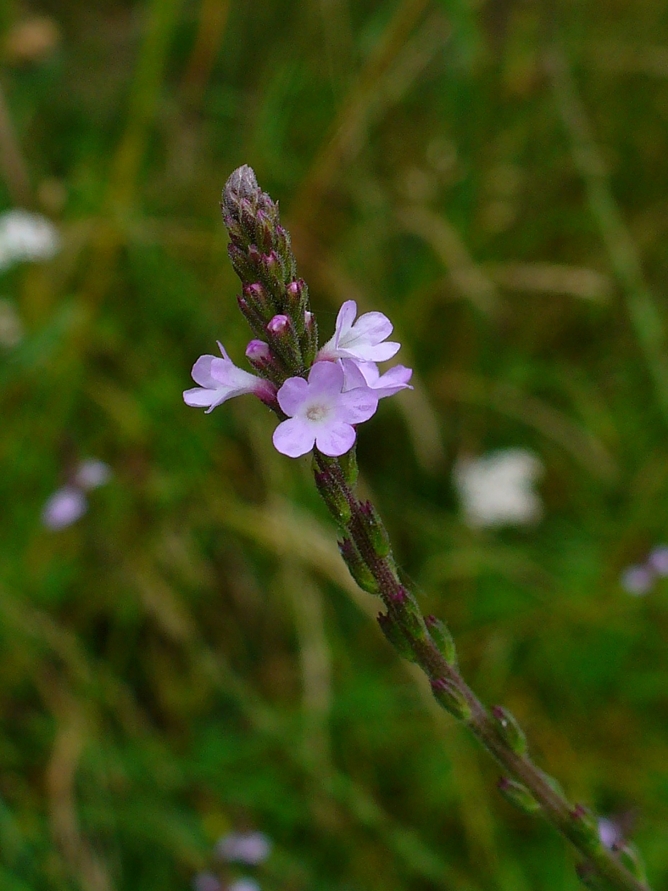 Verbena officinalis, Verbenaceae, Common Vervain, Common Verbena, inflorescence. Karlsruhe, Germany.